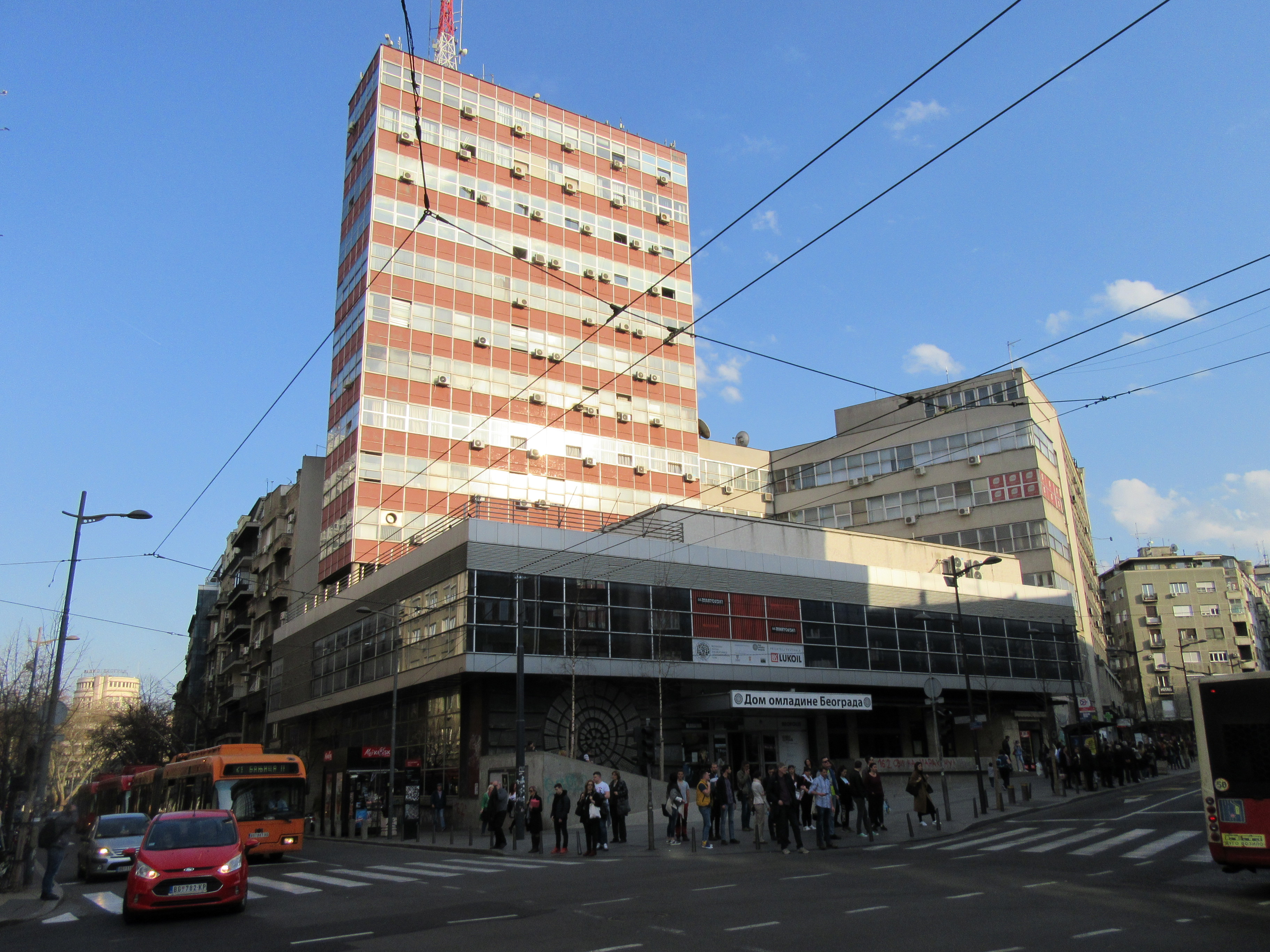 Belgrade Youth Center, Makedonska street, Belgrade, Serbia, 2019. Srpski (latinica): Dom omladine, Makedonska ulica, Beograd, Srbija, 2019.